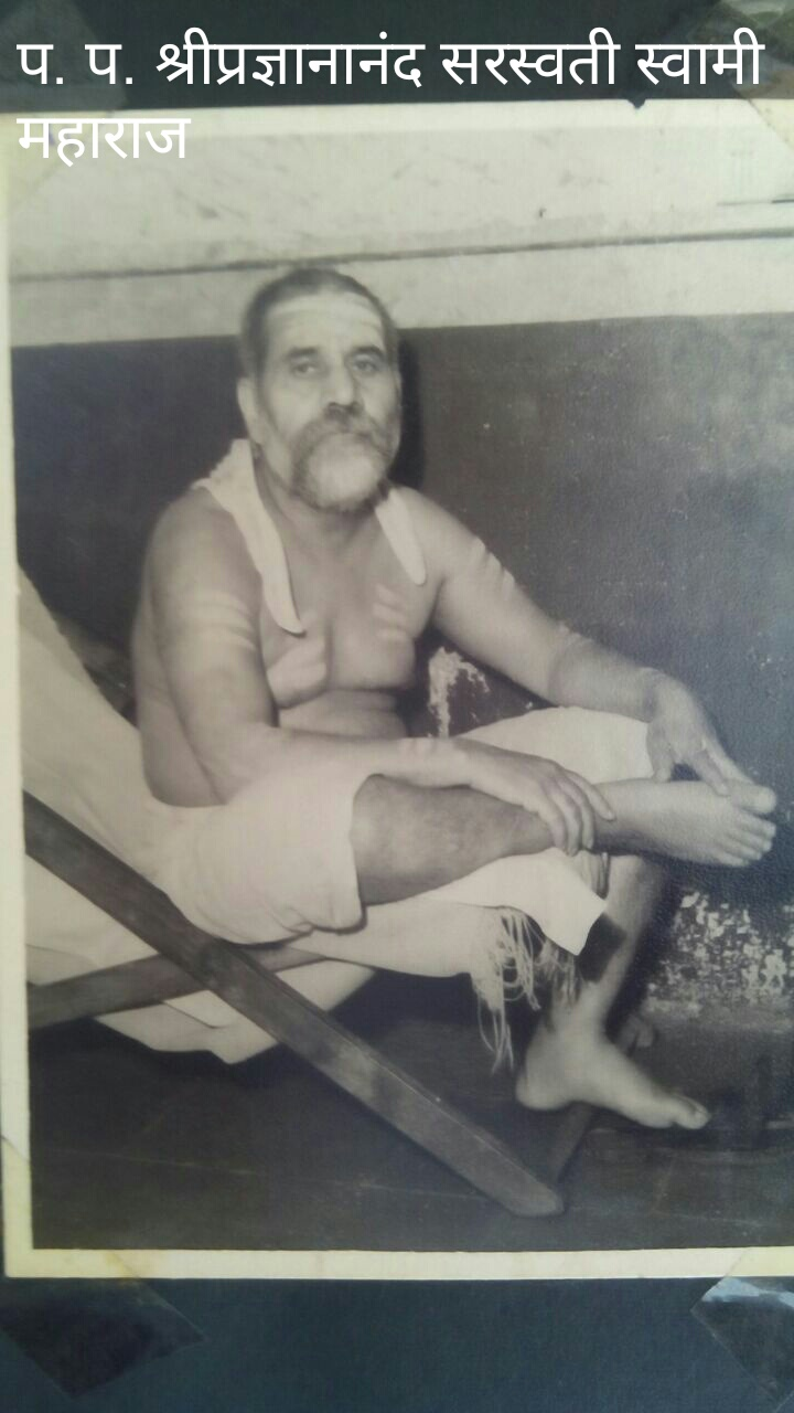 Paramhansa Parivrajakacharya Shri Pradnyanananda Saraswati Swami was one of the great Sanyasi in Maharashtra.